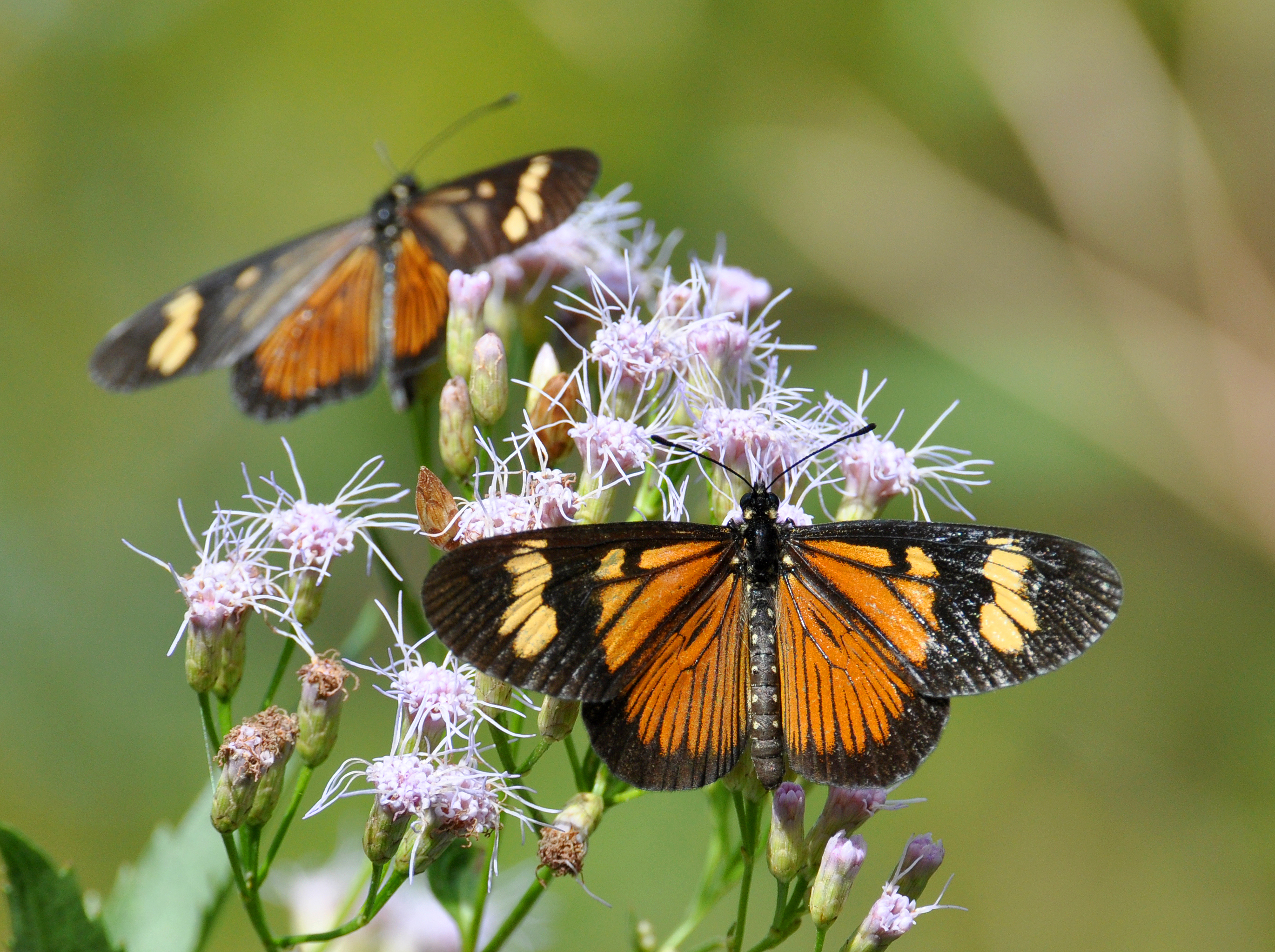 Actinote pellenea photographed in Rio Grande do Sul, Brazil, in April 2010.